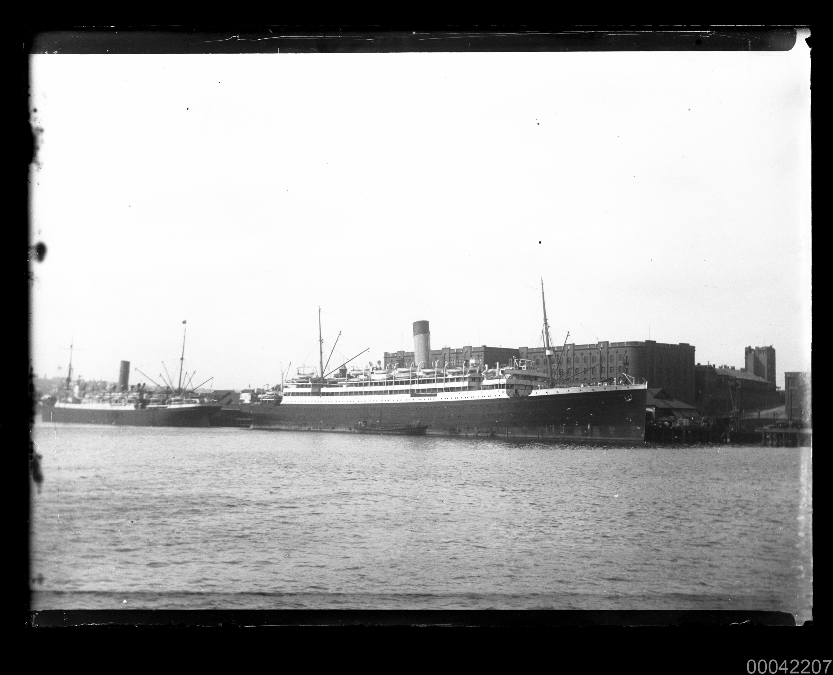 Frederick Wilkinson took this photograph aboard a ferry from Balmain of the MEGANTIC at the Aberdeen Wharf at Millers Point, Sydney. Frederick Wilkinson (1901 - 1975) migrated to Australia from England in 1911. While working various jobs in and around central Sydney, Wilkinson acquired a camera and began taking photographs of vessels and harbour scenes. Many of his images were used by commercial photographers for souvenir postcards. The ANMM undertakes research and accepts public comments that enhance the information we hold about images in our collection. This record has been updated accordingly. Photographer: Frederick Garner Wilkinson Object no. 00042207